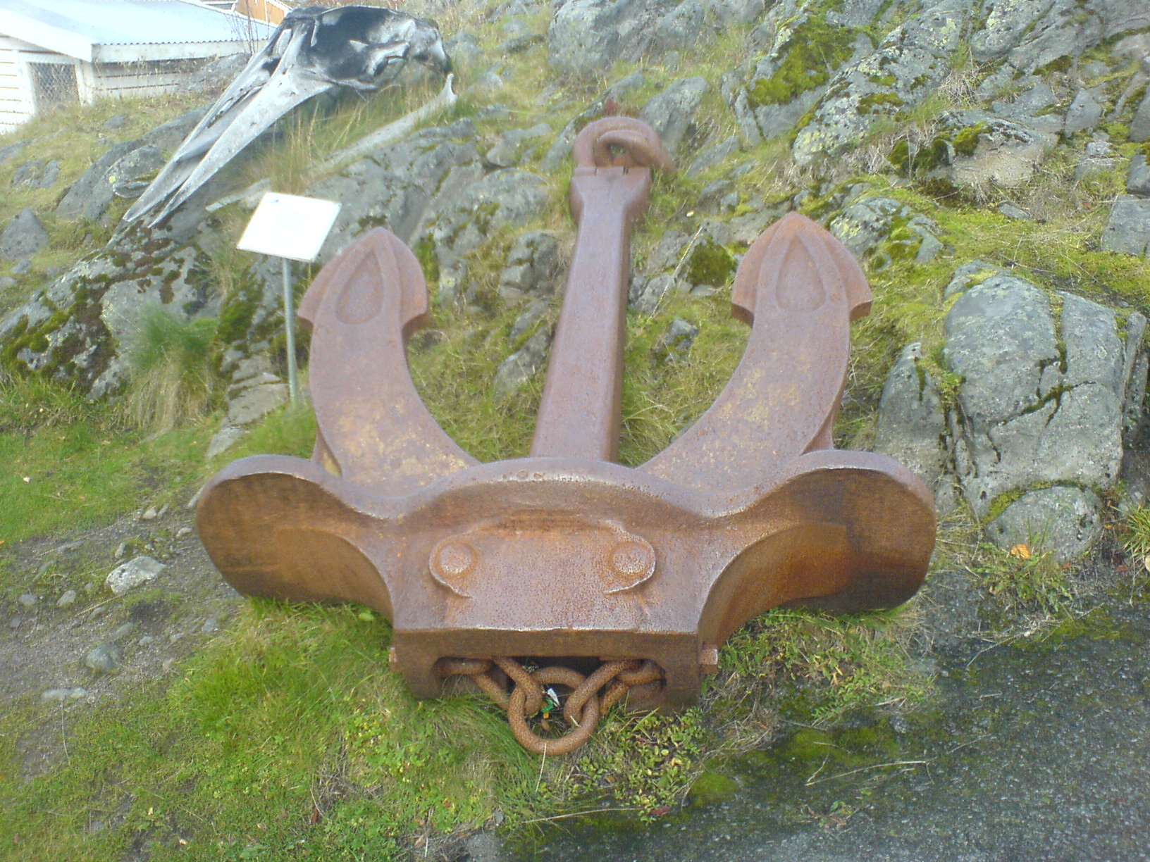 The anchor of HNoMS Tordenskjold photographed outside the "Lofoten Aquerium" in Kabelvåg.